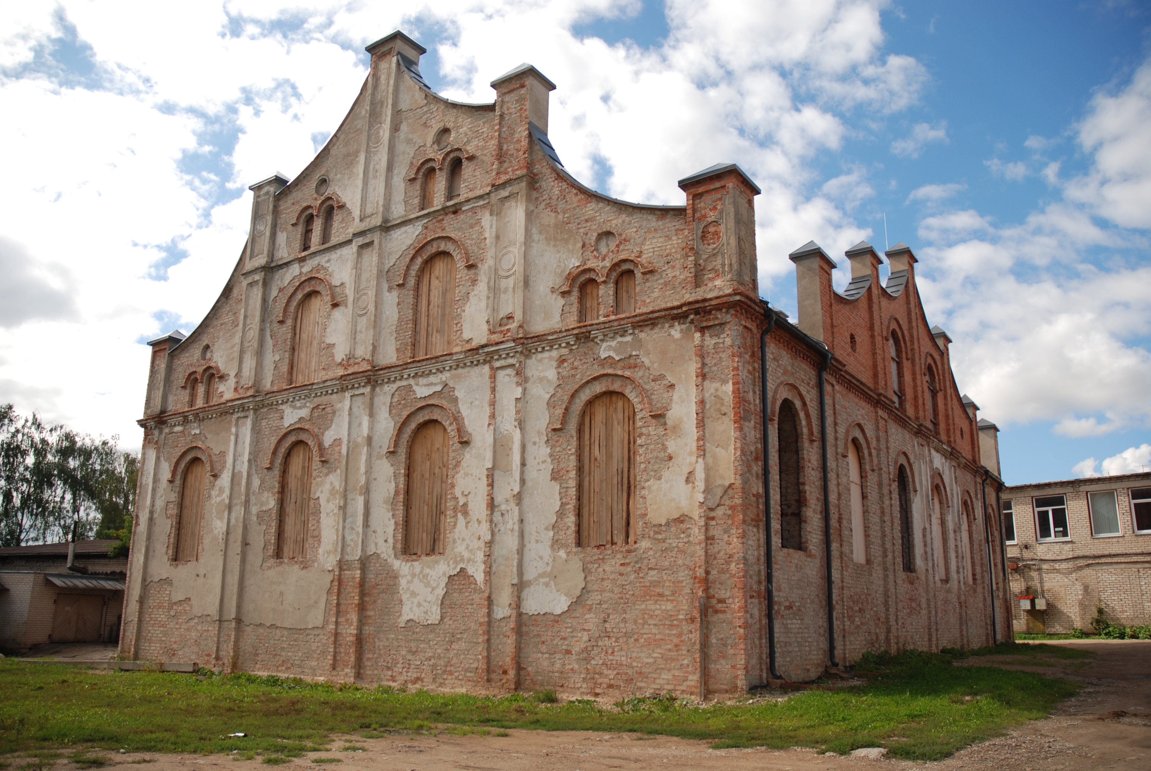 The White Synagogue in Joniškis